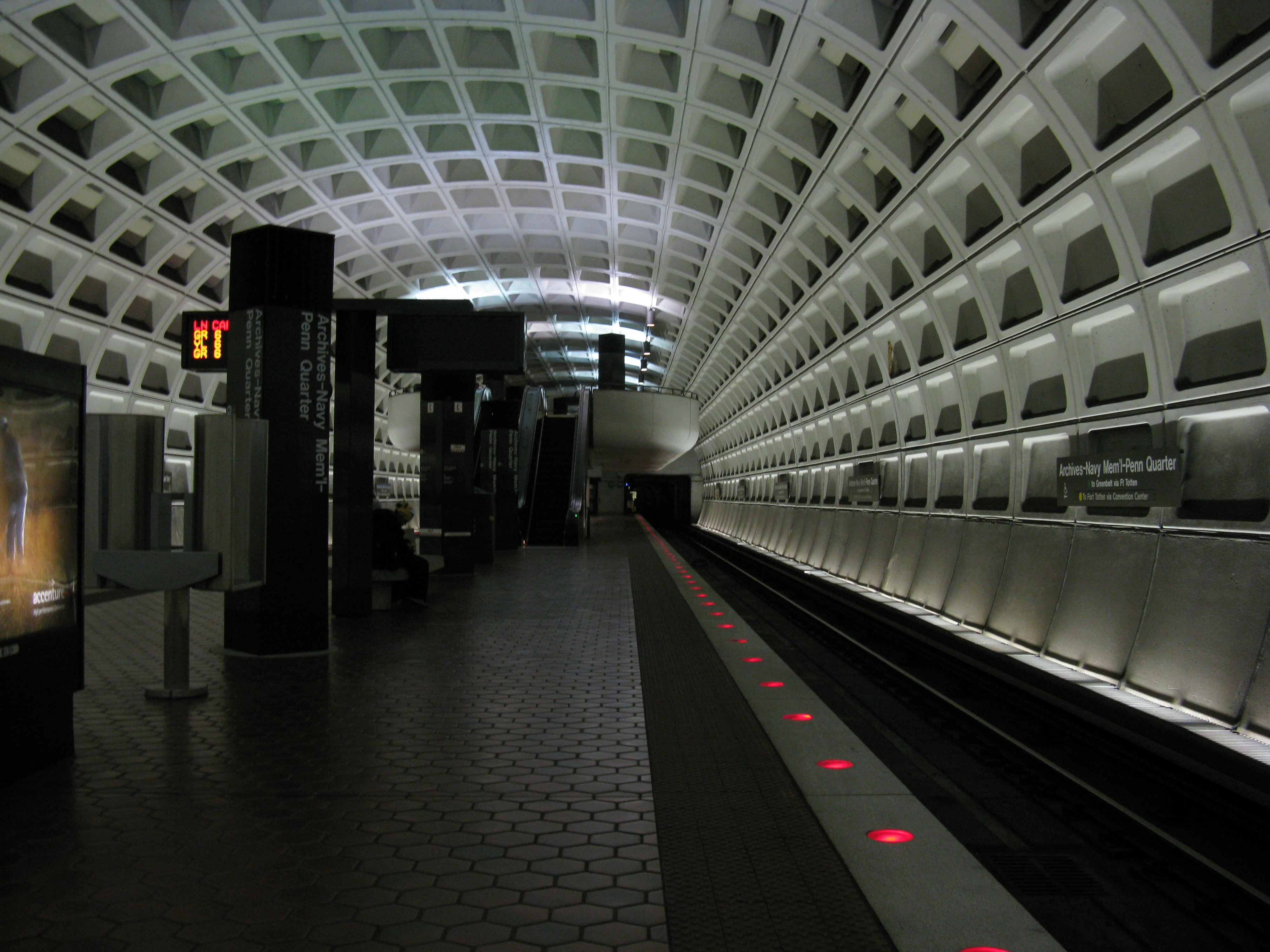 The Archives-Navy Mem'l-Penn Quarter Station on the Green and Yellow Lines in Downtown Washington, DC/